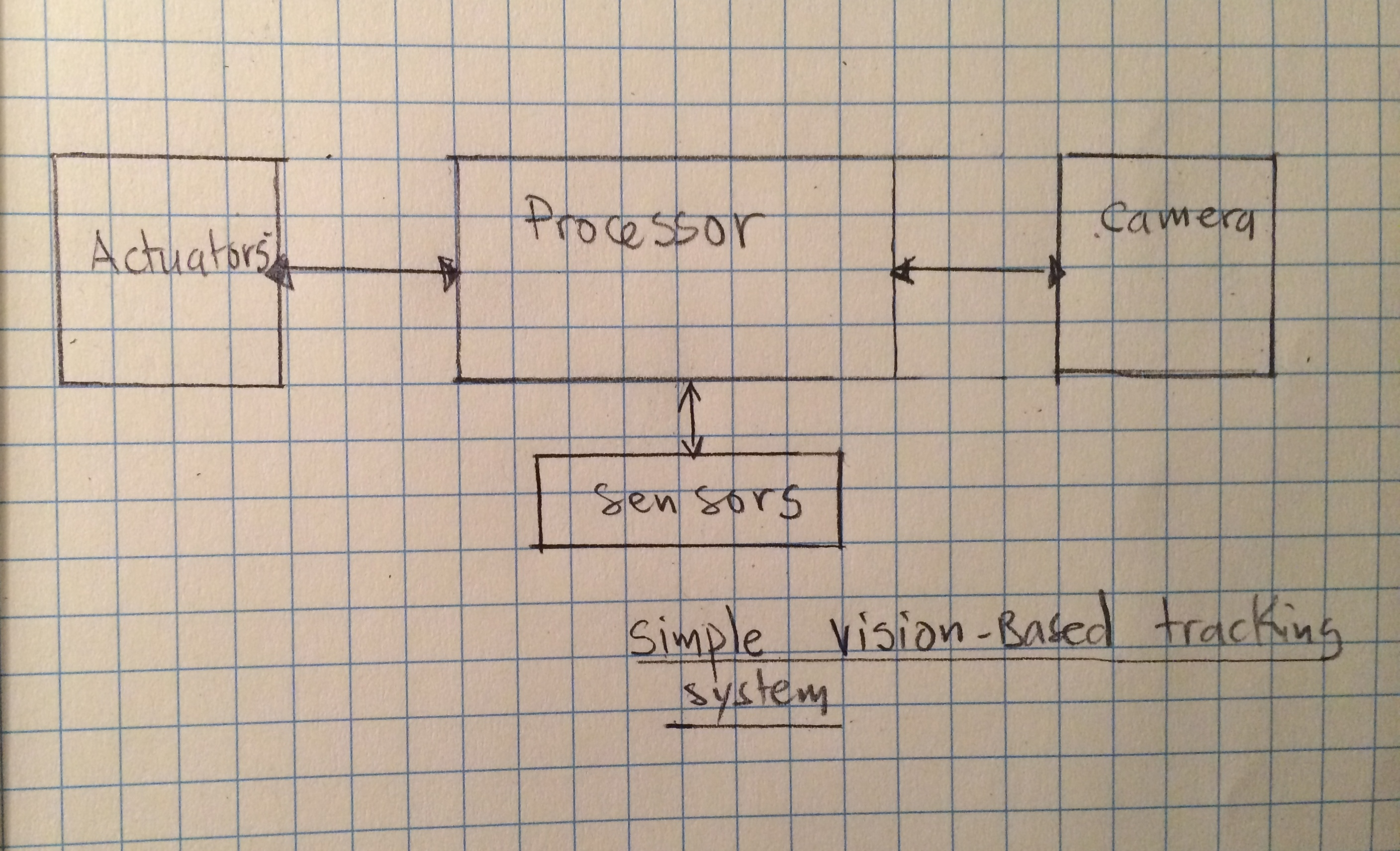 bloc diagram for project2